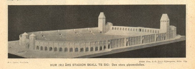 Gipsmodell över blivande Stockholms stadion av Carl Fagerberg, 1911 ur Hvar 8 dag / Årg. 12 (1910/1911) / sidan 470, (1899-1933), o 30, den 23 april 1911.